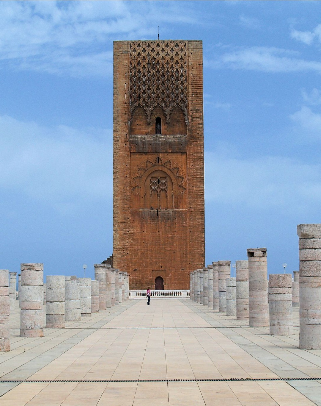 Hassan Tower in Rabat (Morocco).